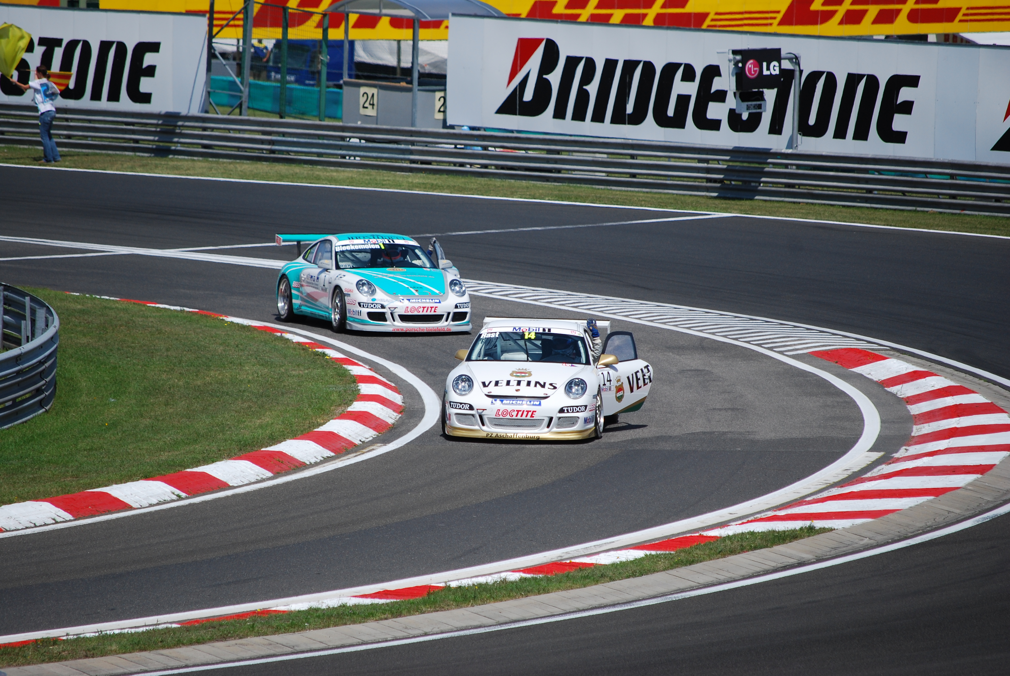 René Rast and Jeroen Bleekemolen after Porsche Supercup at Hungaroring in 2009.